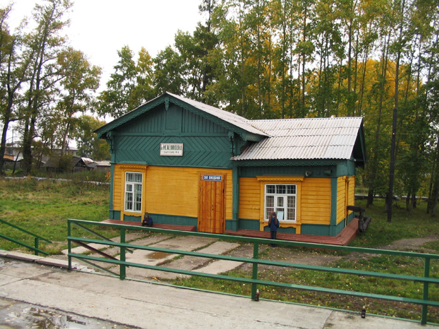 Mezheninovka rail station, Tomsk suburban, Russia.